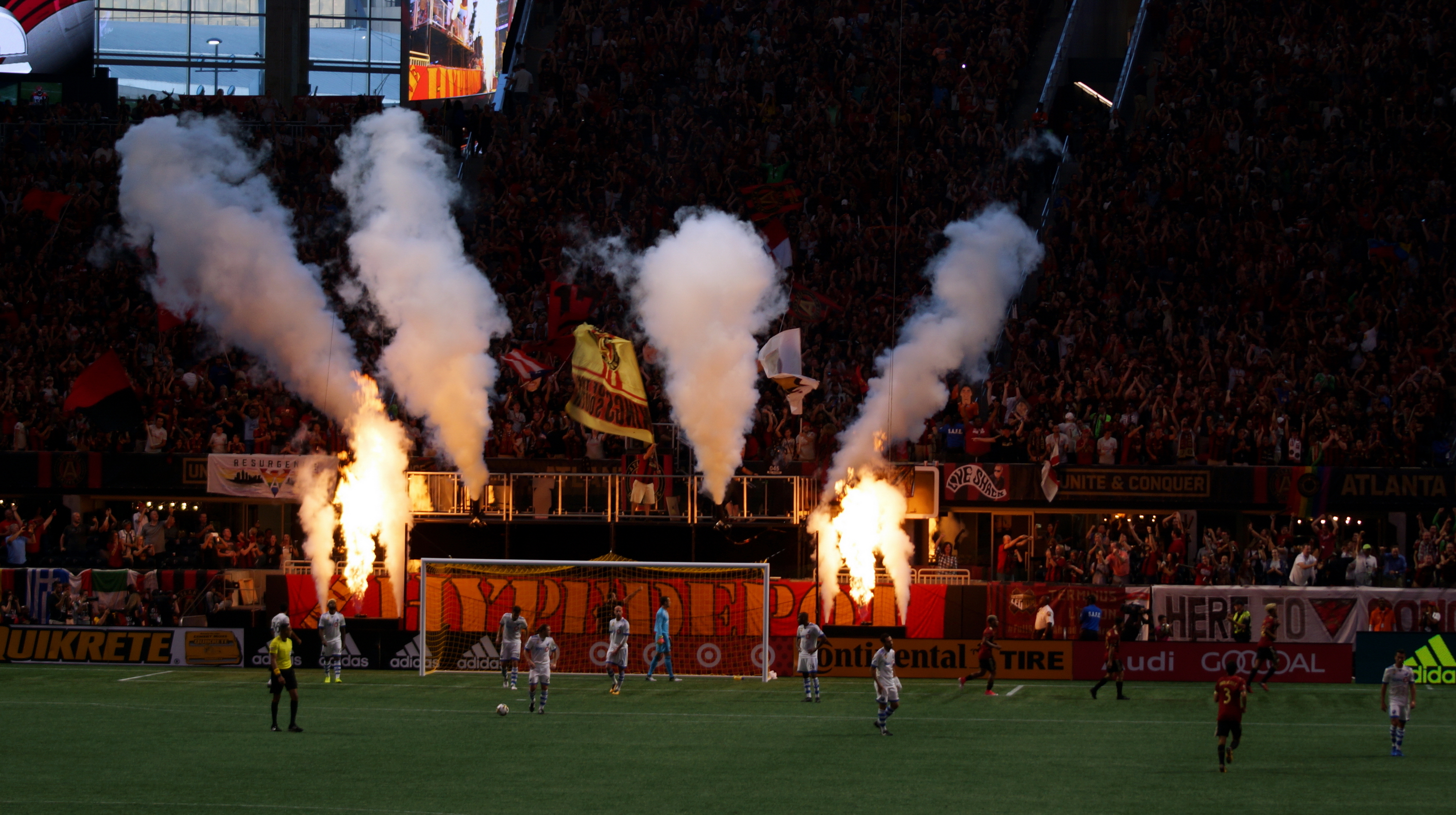 2017-09-24 - Atlanta United vs Montreal Impact